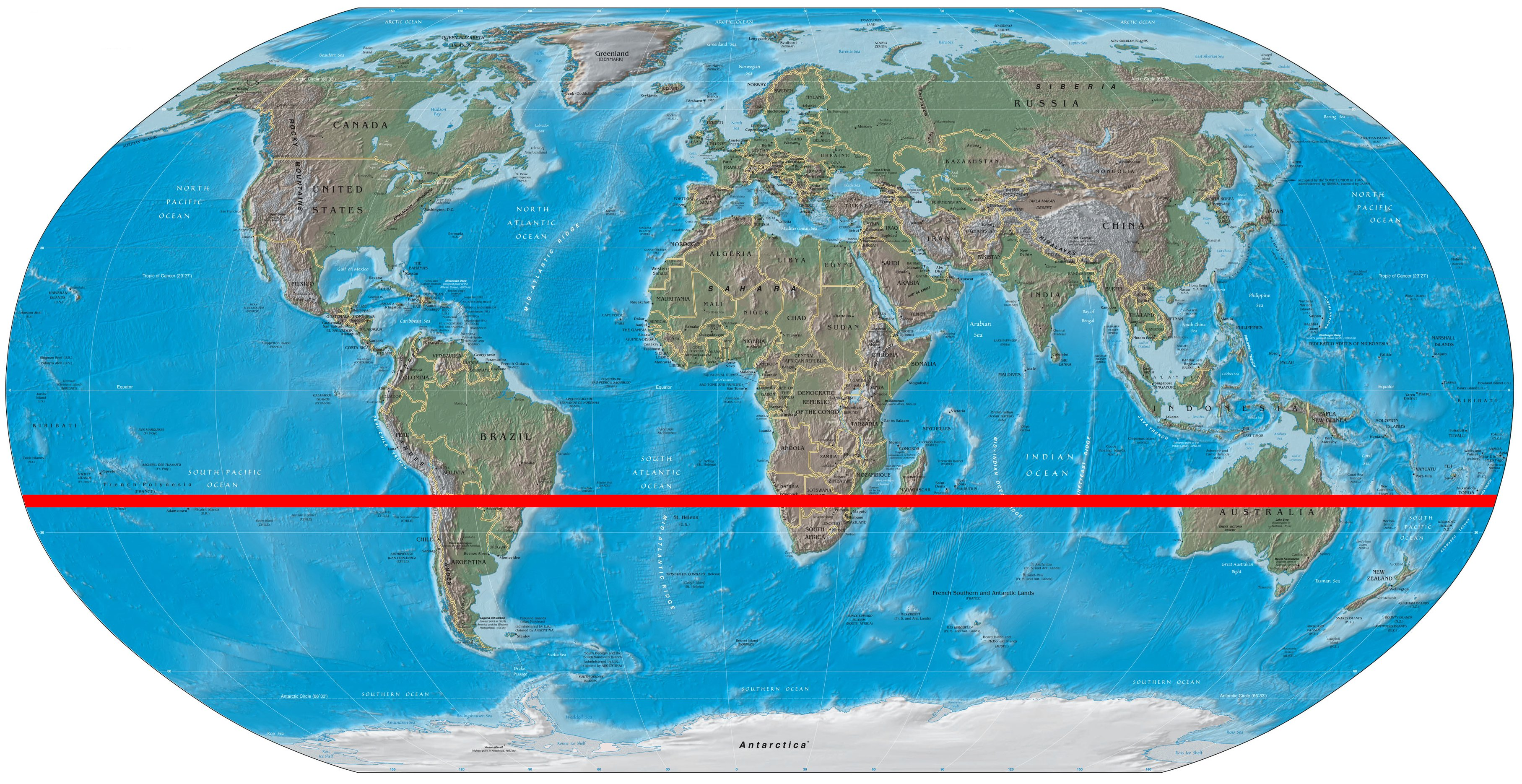 Based on public domain CIA World Fact book image with the Tropic of Capricorn bolded in red